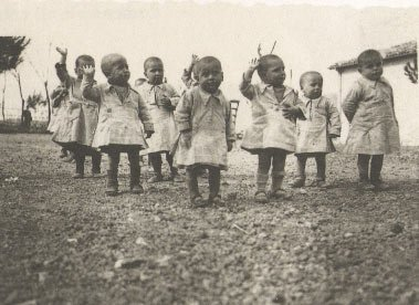 Bambini